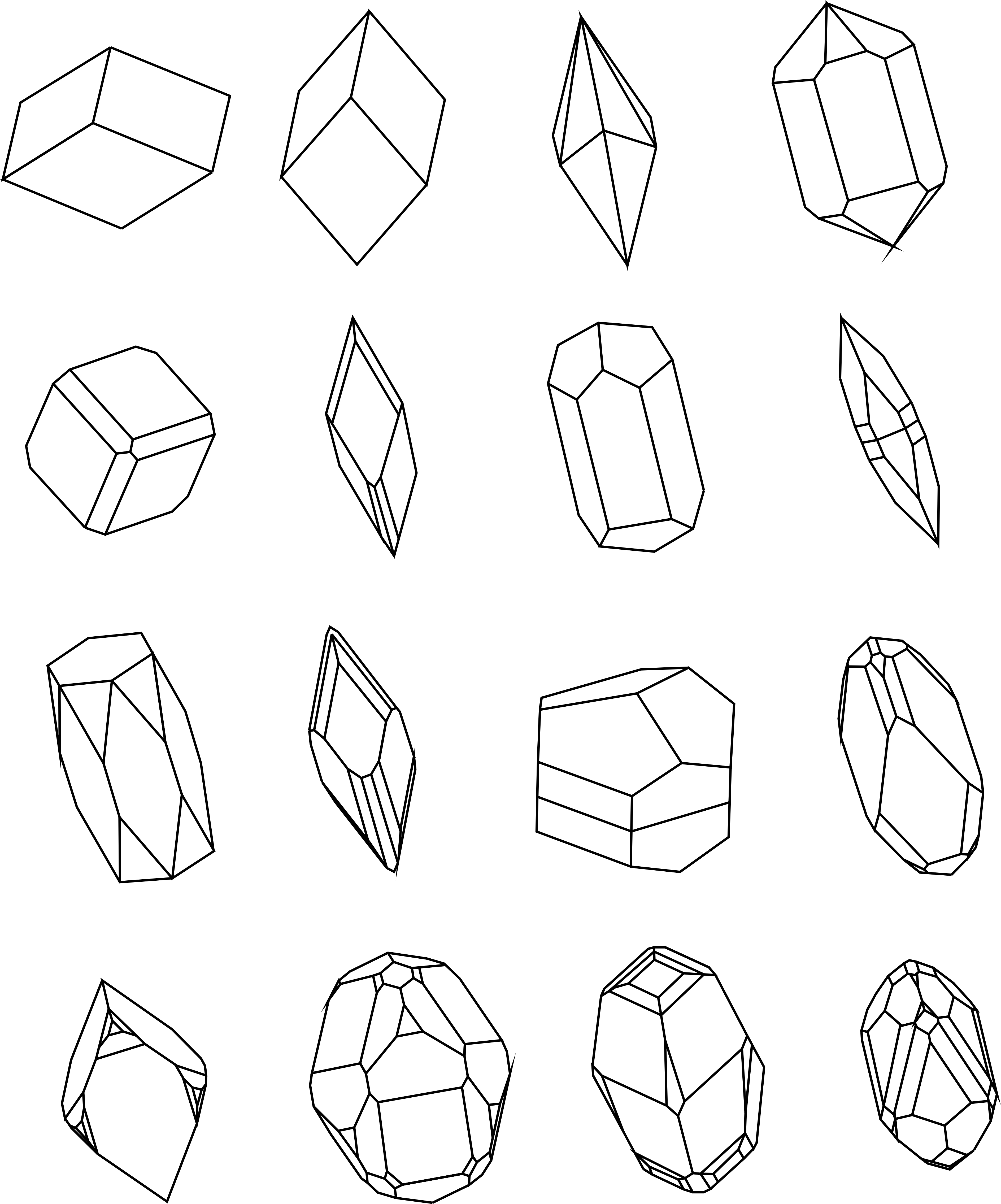 Calcite habits after Goldschmidt (1913)